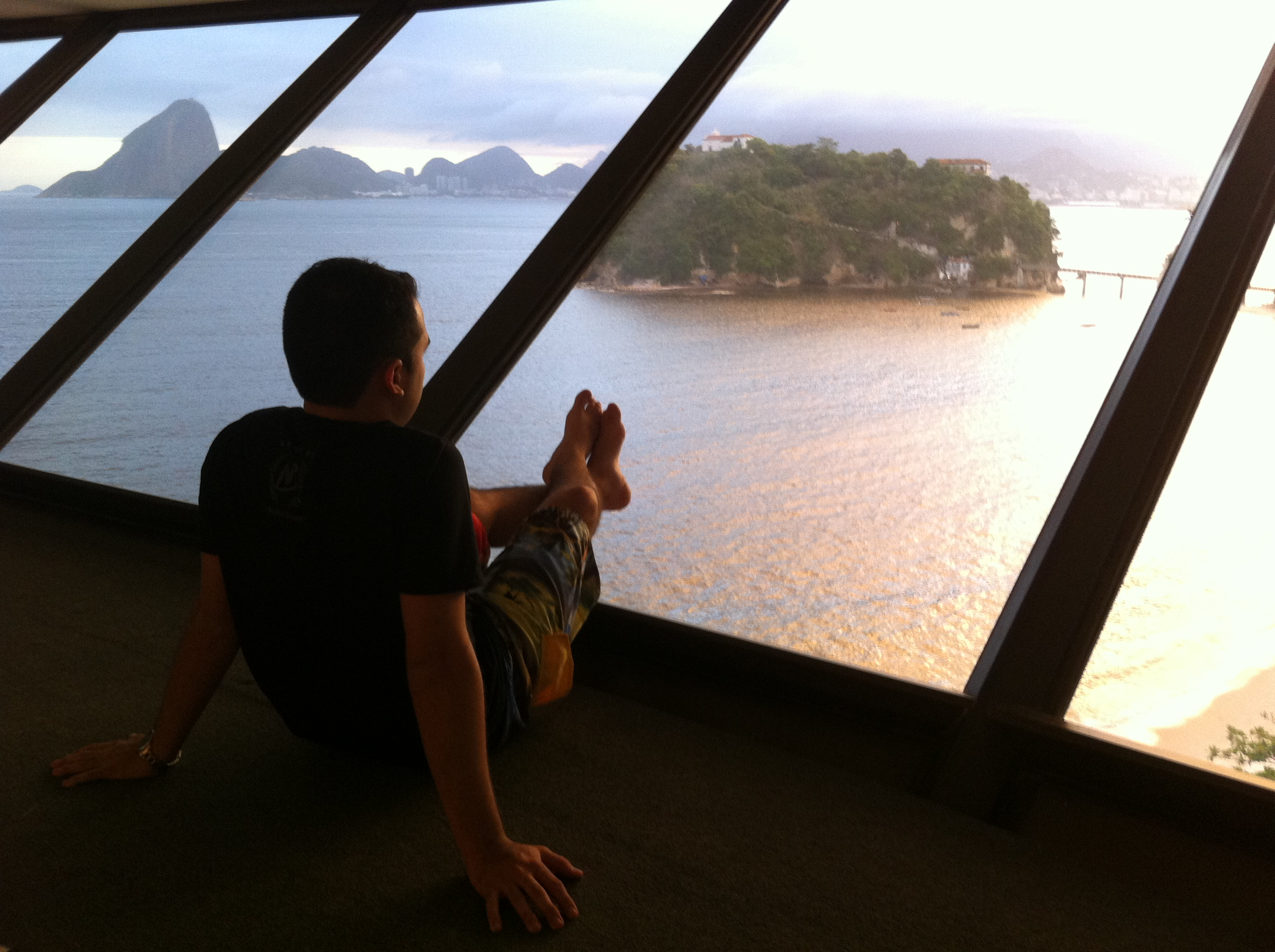 Baia de Guanabara no Museu de Arte Contemporânea de Niterói